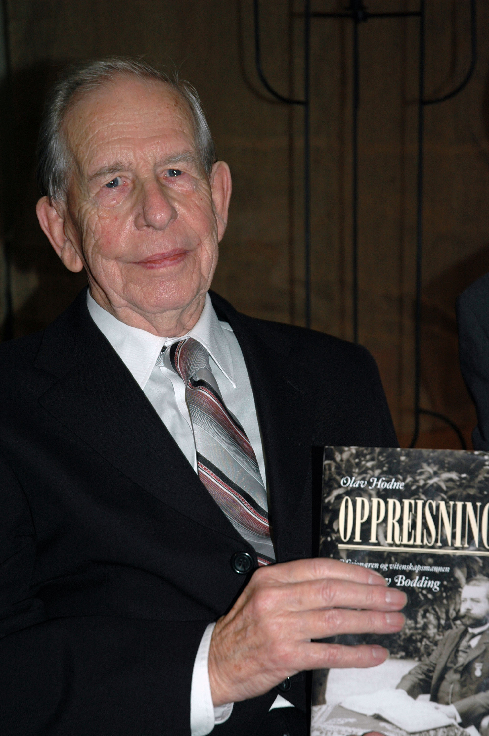 Olav Hodne presents his book "Oppreisning" in Gjøvik, Norway November 2006.